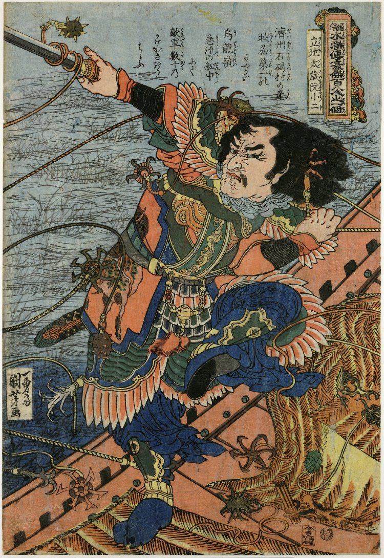 Ruan Xiao'er (阮小二) in boat caught by enemy's harpoons and grapnels.